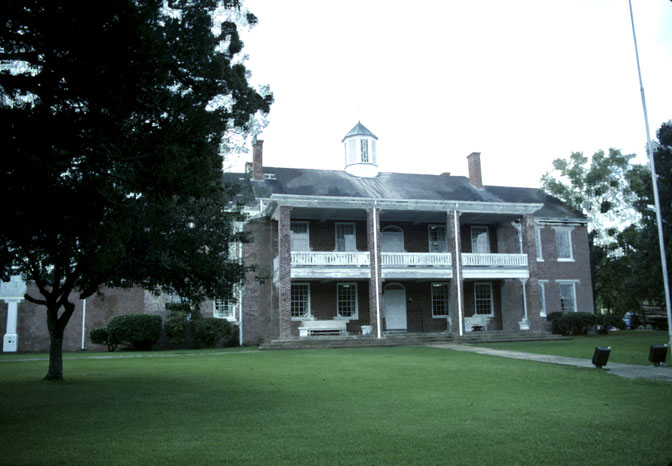 Amite County courthosue in Liberty, Mississippi, United States